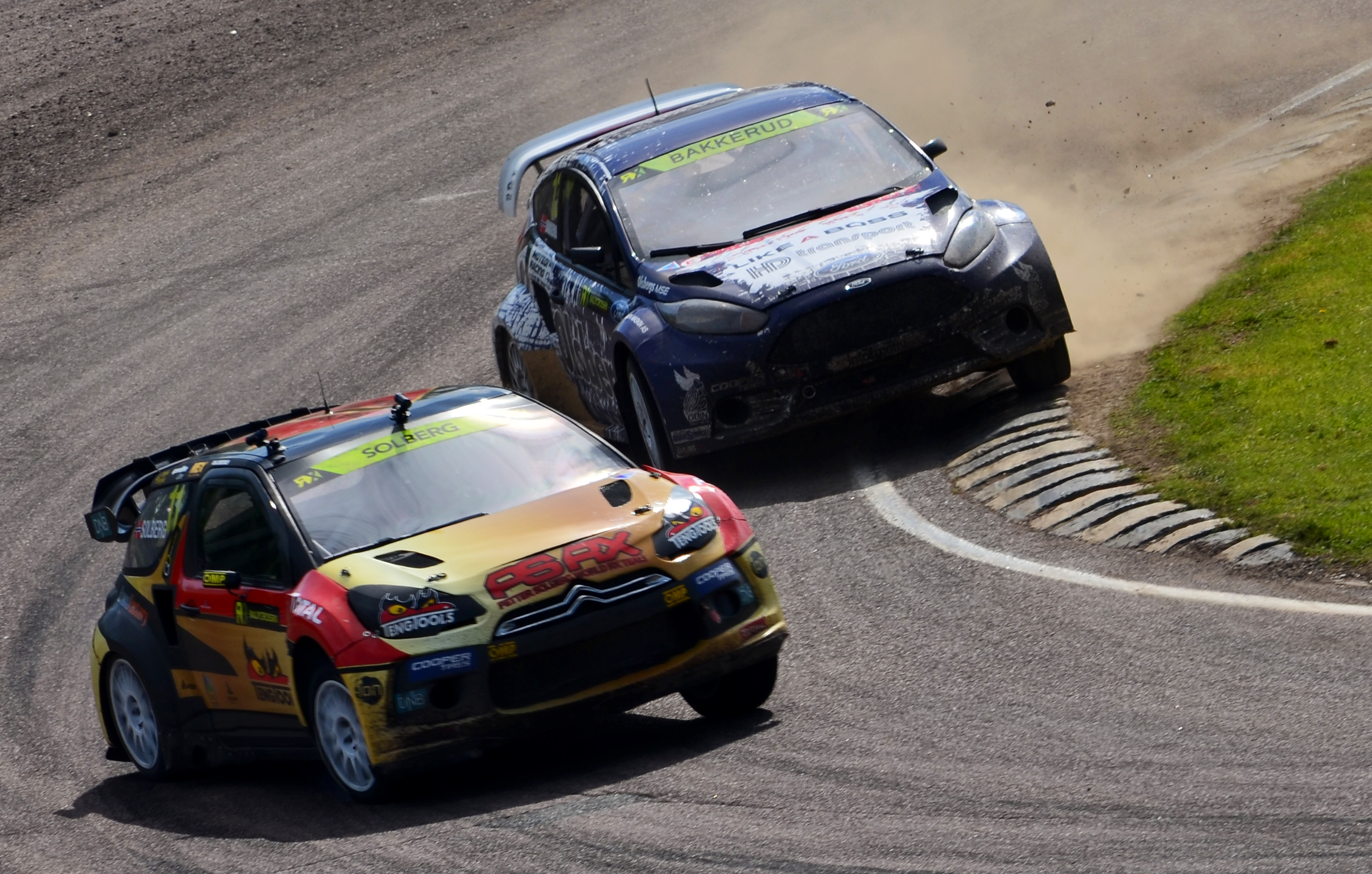 Petter Solberg holds off Andreas Bakkerud through Devil's Elbow at Lydden Hill during the first super car semi-final of round 2 of the 2014 FIA World Rallycross Championship.